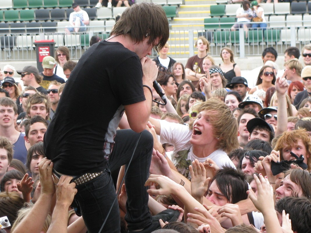 Shane completes the Melbourne show on the shoulders of the band's fans